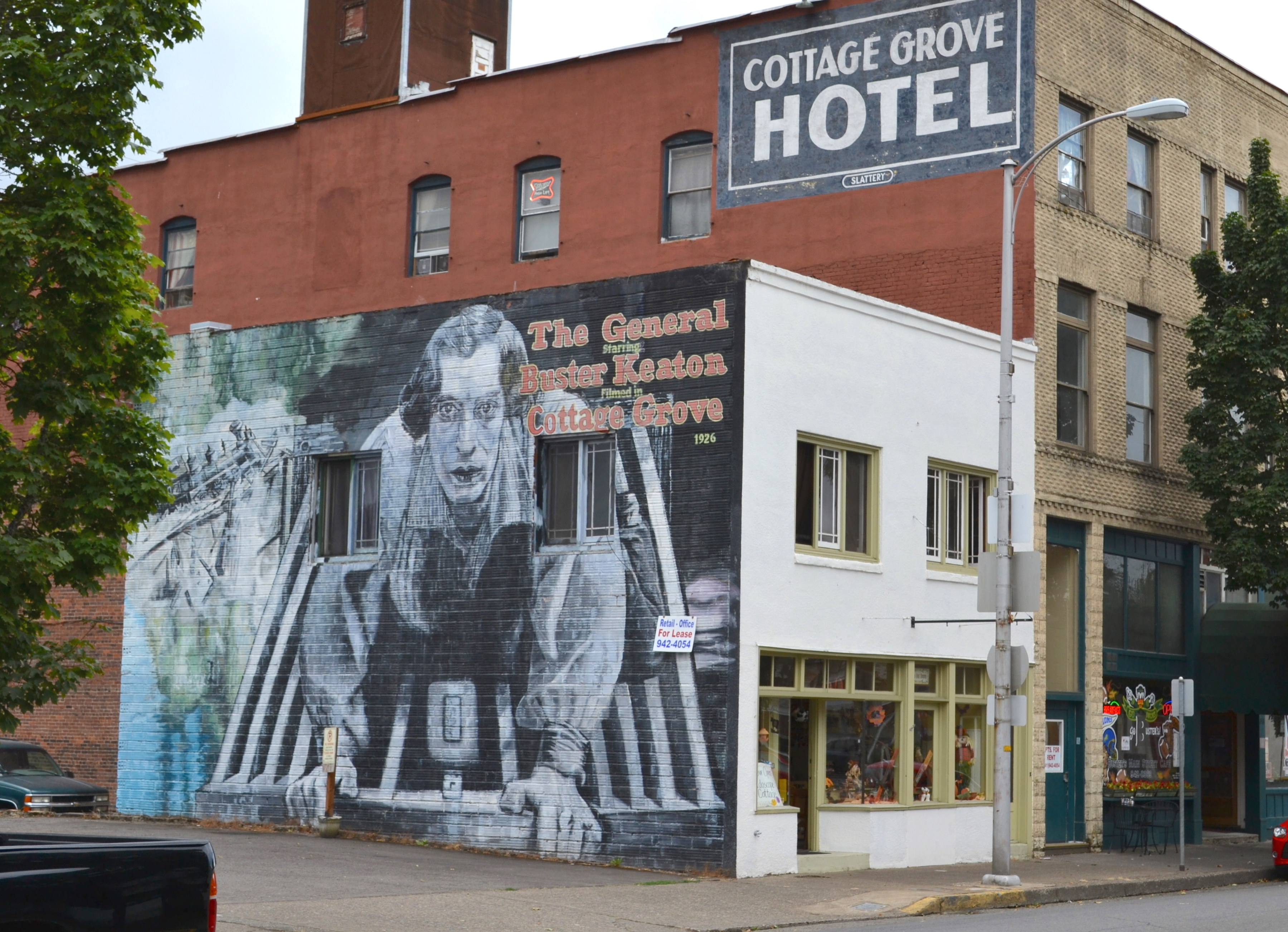 The General sign and Cottage Grove Hotel sign (Cottage Grove, Oregon)